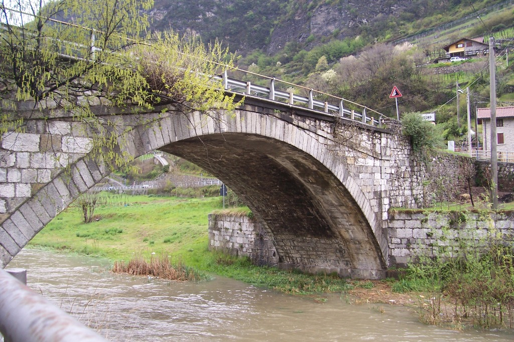 Bridge of Minerva, Breno, Val Camonica